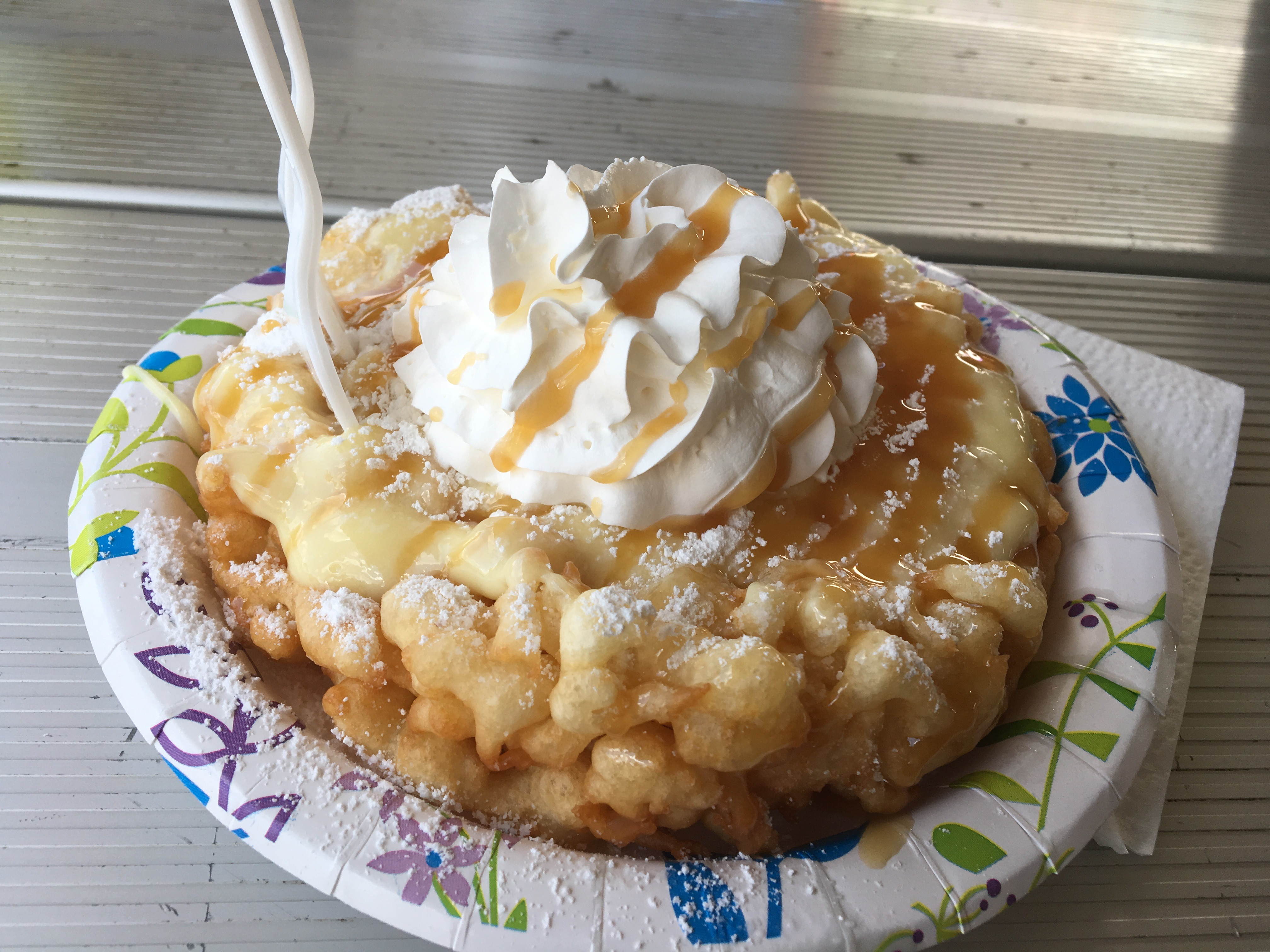 A funnel cake at the Oregon State Fair